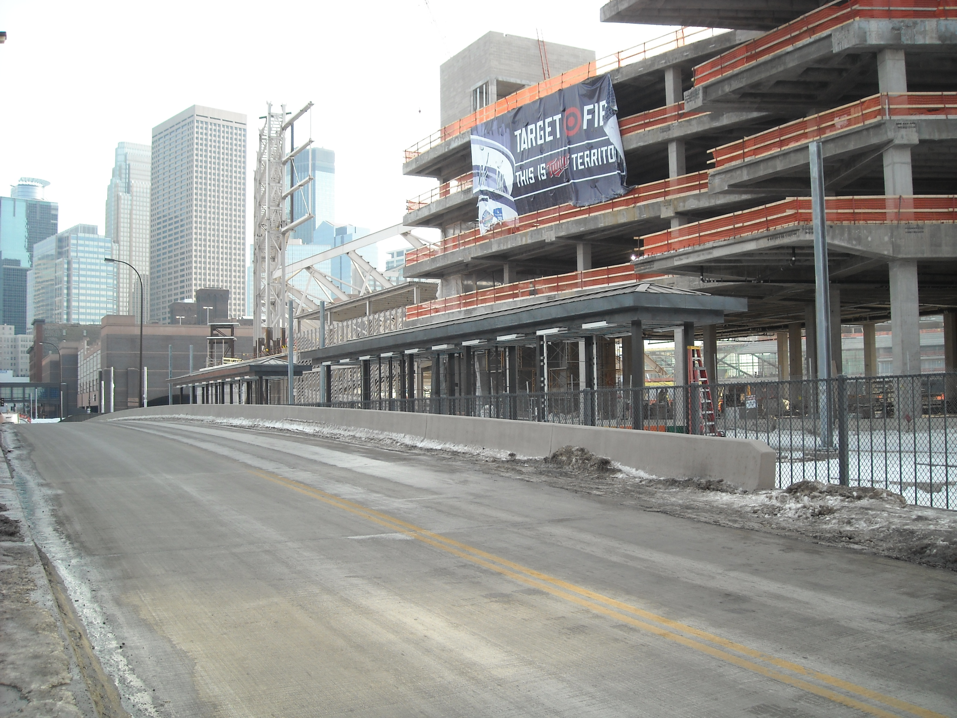 Platforms for Hiawatha Line at Downtown Minneapolis Ballpark Station under construction.